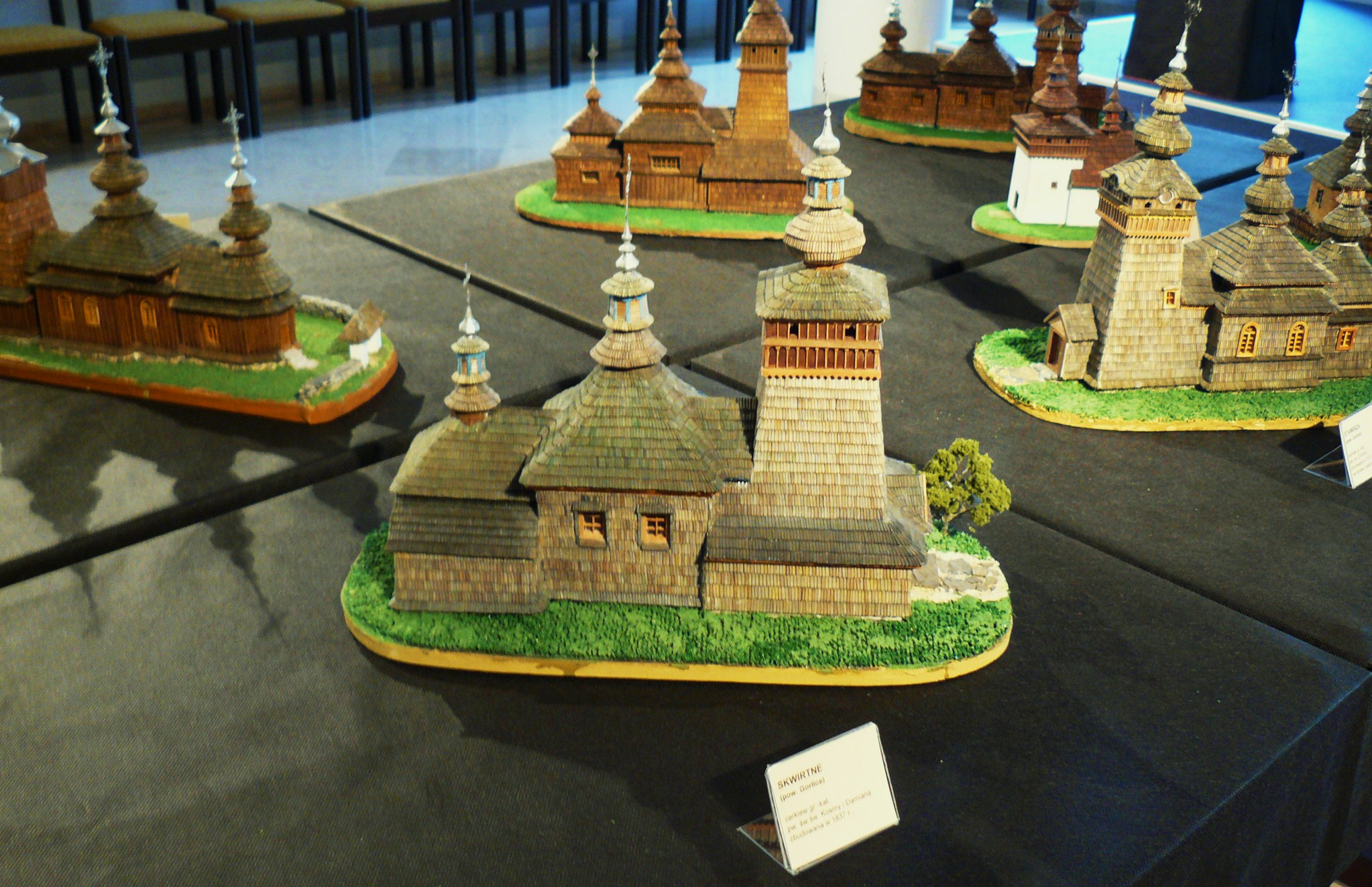 Orthodox churches models from Michal Warchil (Poland).